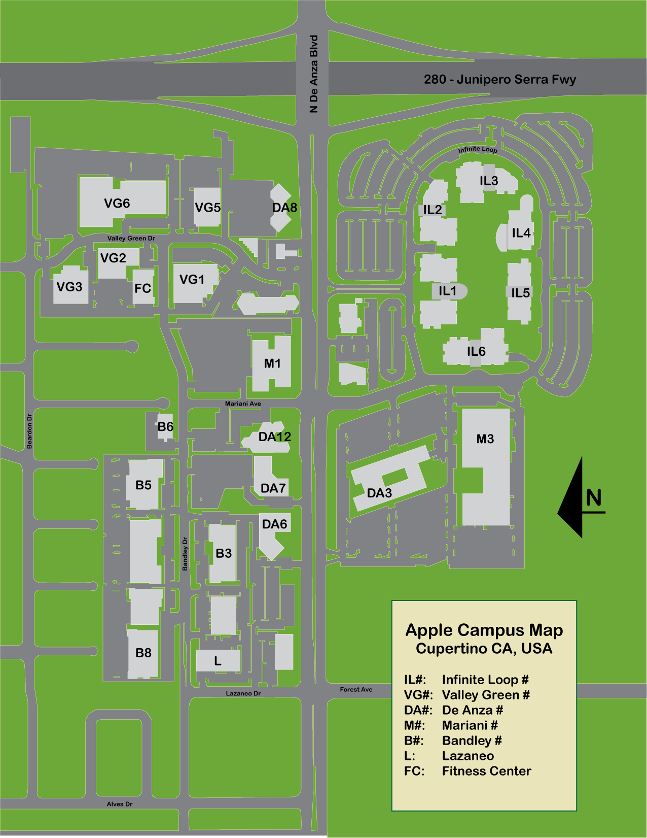 Apple Campus Map, Cupertino CA USA. Infinite Loop.